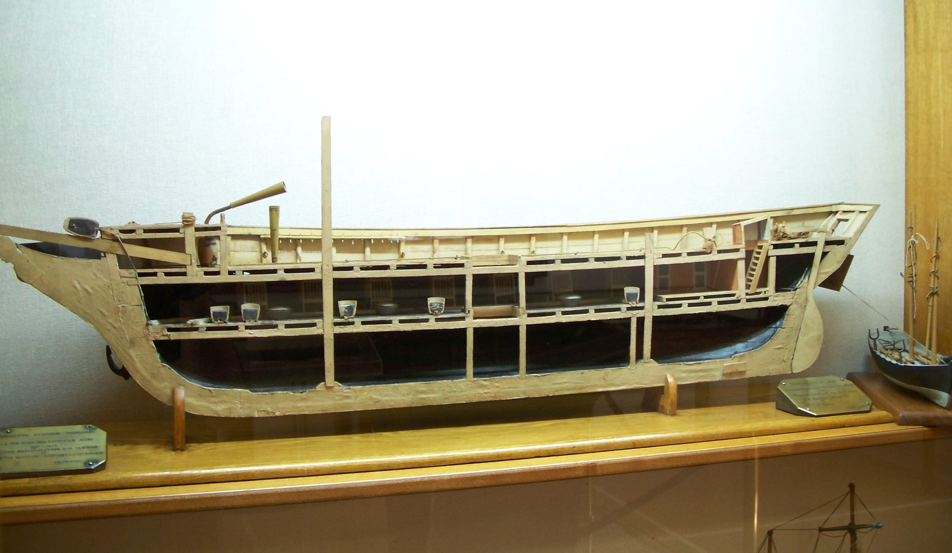 Cross section of a pyproliko (πυρπολικό), boat that was used to set the enemie's ships on fire. It was filled with asphalt and other flammable materials. The little boat at the rear was used by the crew to get away when the fire was about to start. National Historical Museum, Athens, Greece.